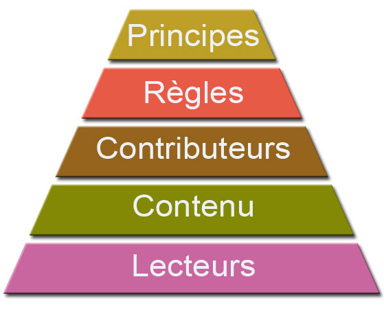 Wikipedia priority pyramid